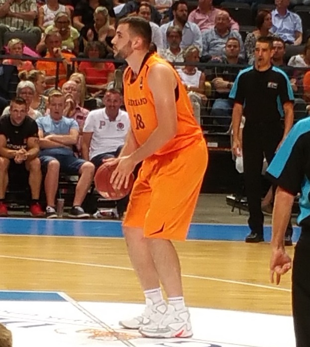 Nicolas de Jong during EuroBasket 2017 qualification